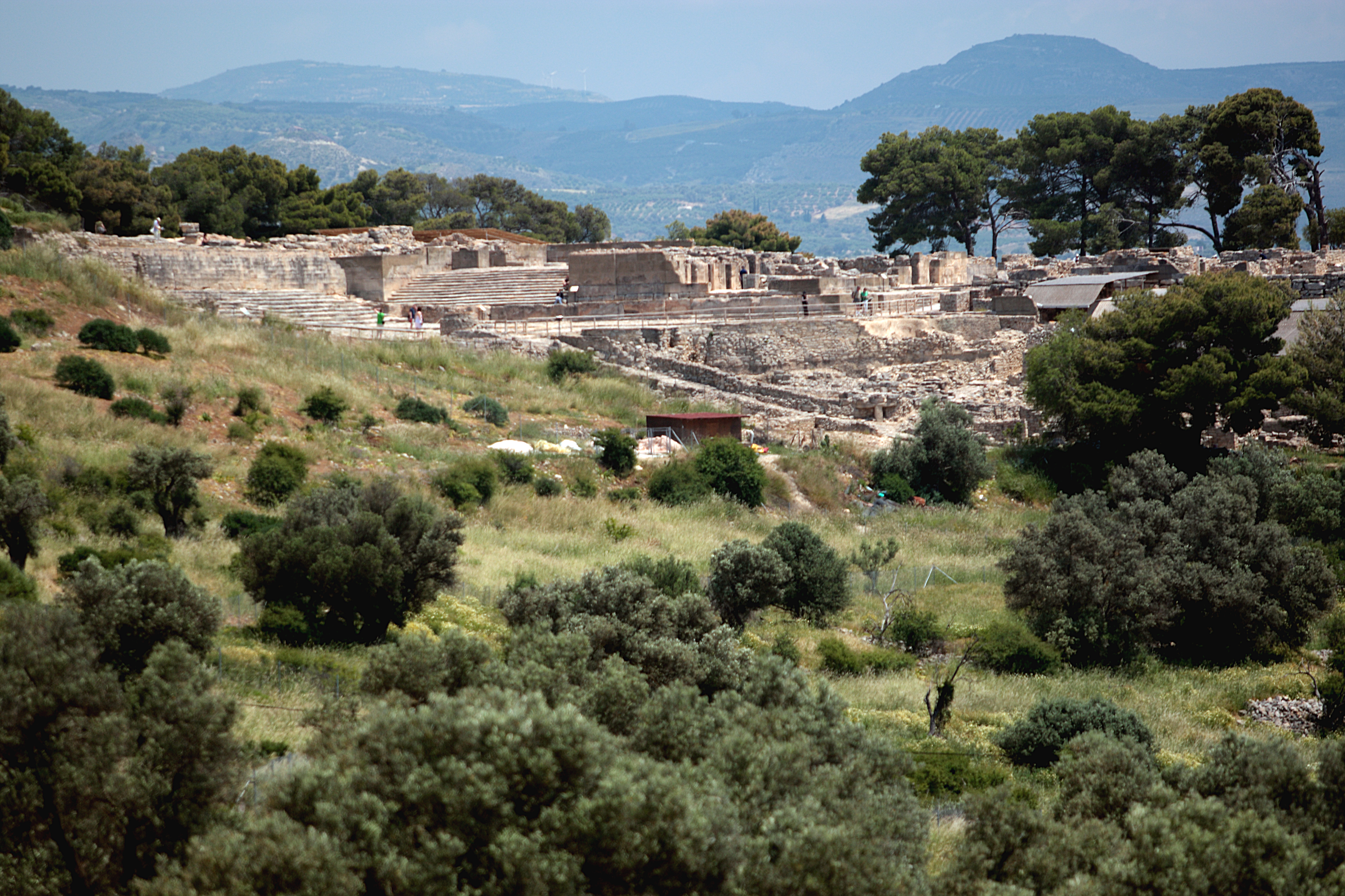 View of Paistos, Crete